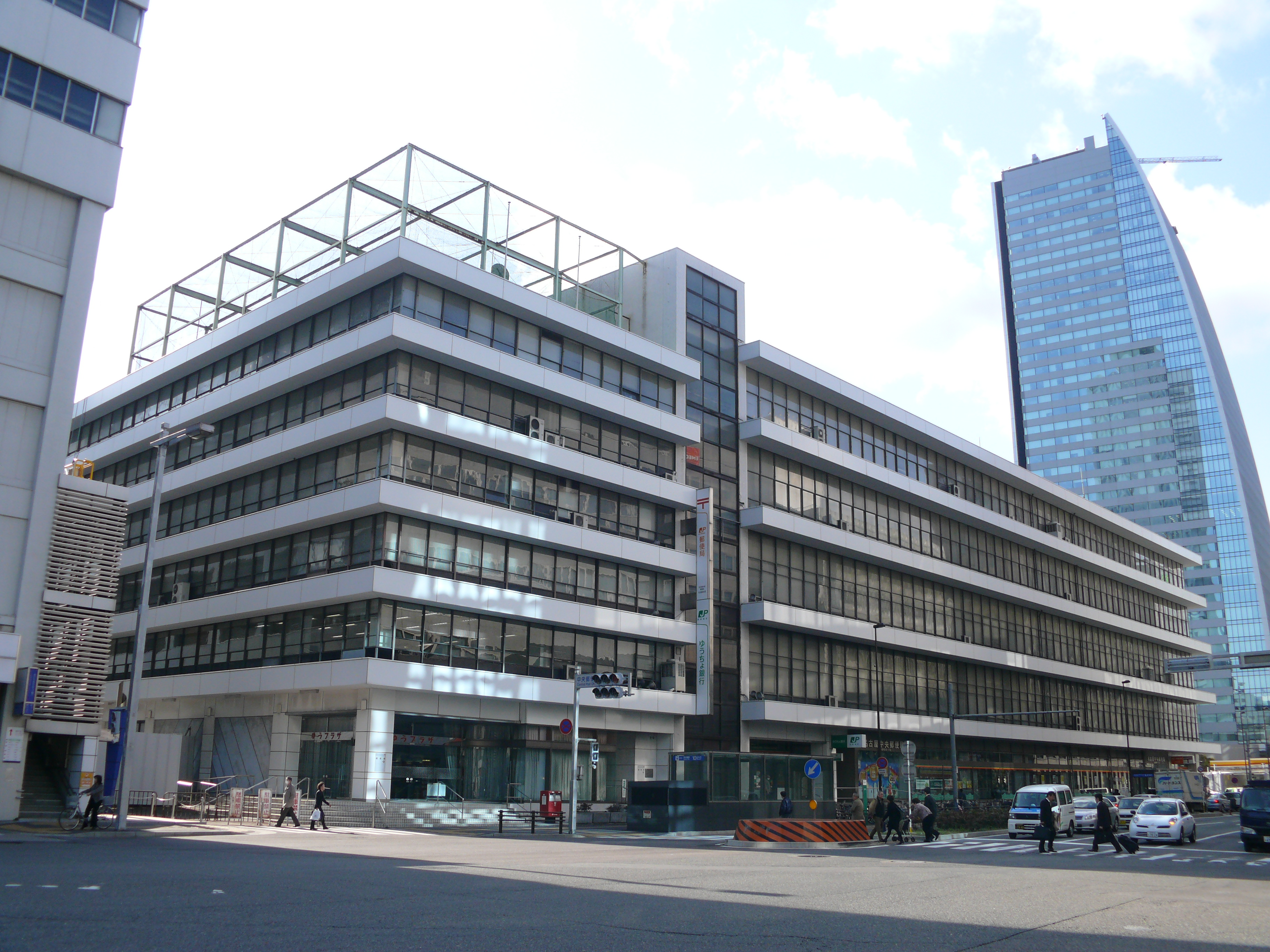 Building of Nagoya Chuo Post Office Nagoya Station Office,Nakamura,Nagoya,Aichi,Japan